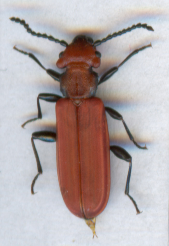 cucujus cinnaberinus